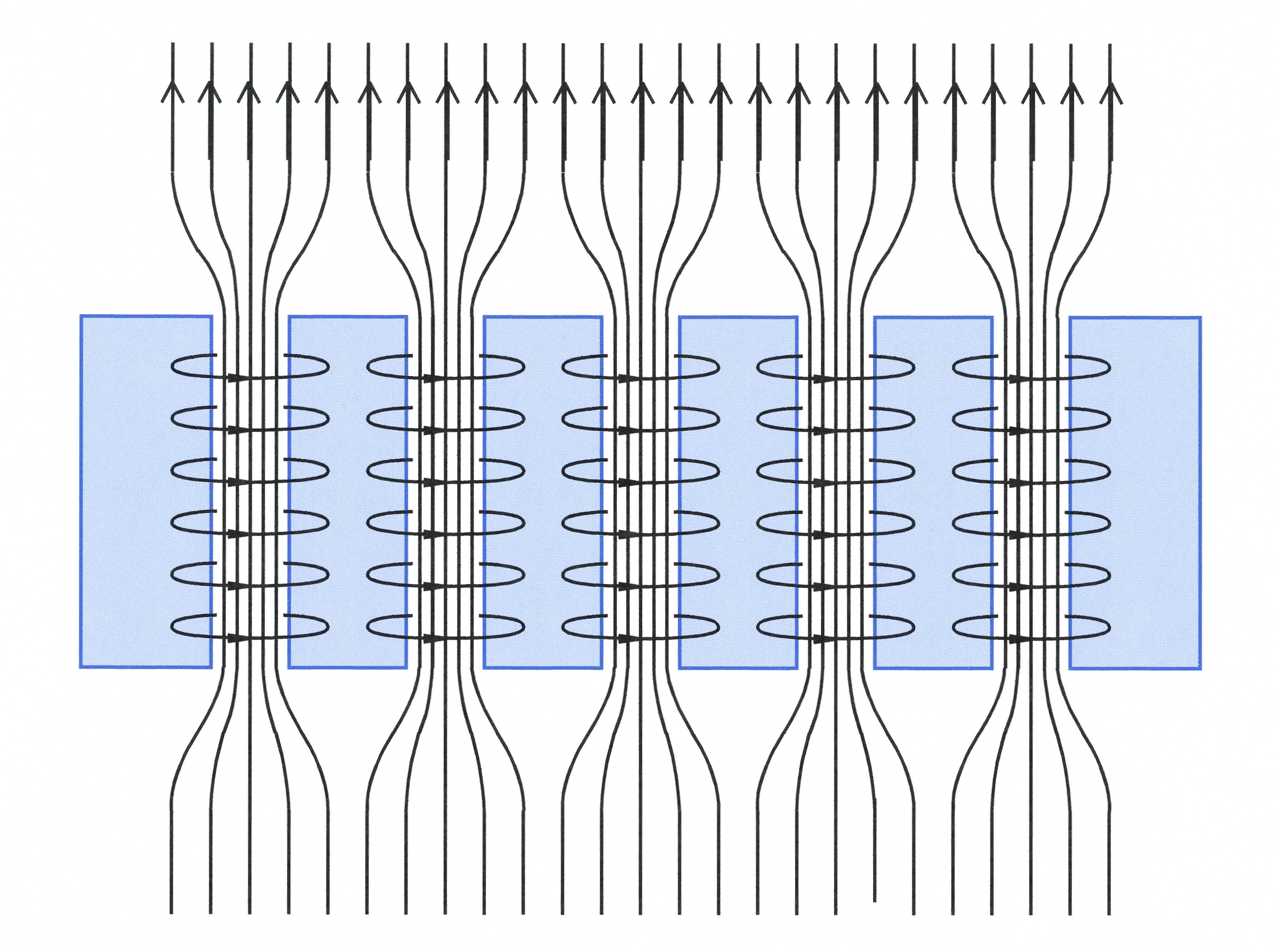 Flux lines in a type two superconductor01